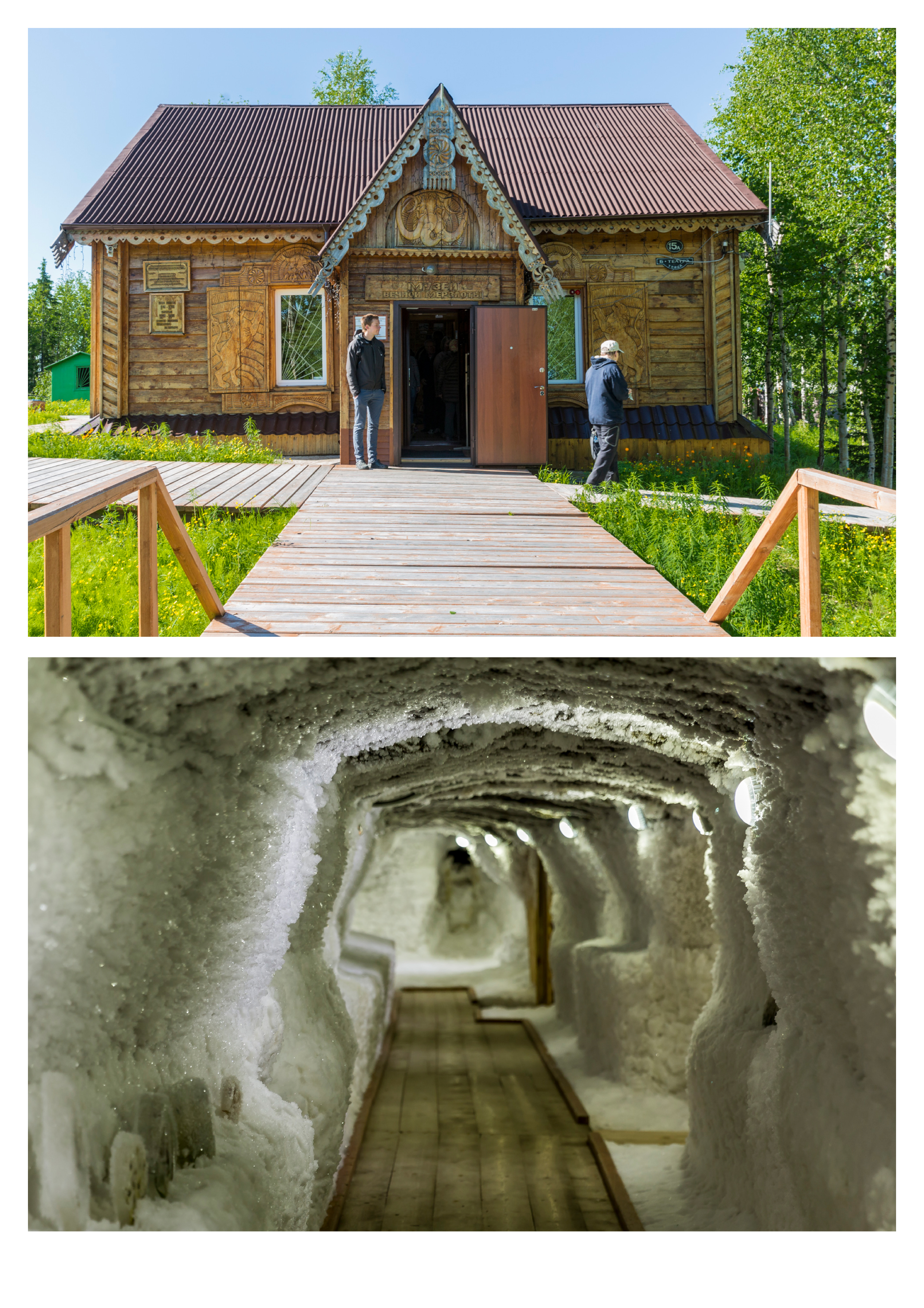 Igarka Permafrostmuseum